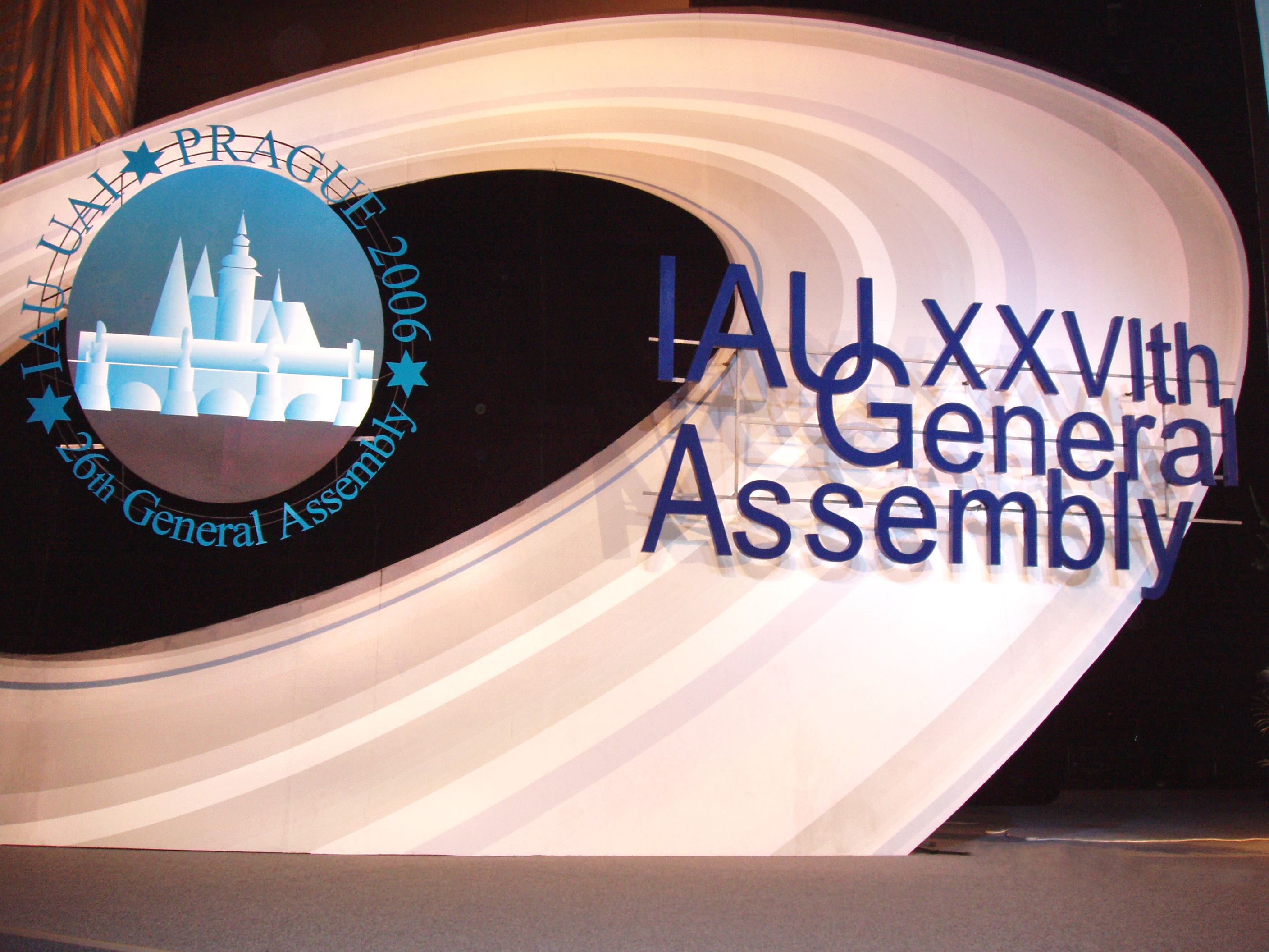 Symbol of the IAU 26th General Assembly, Prague